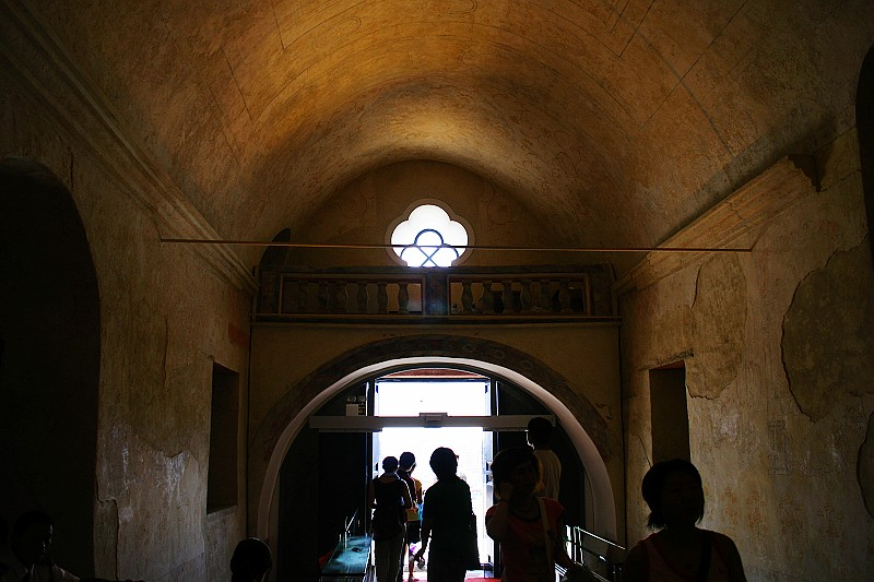 Nossa Senhora da Guia Church Interior, Macau, China